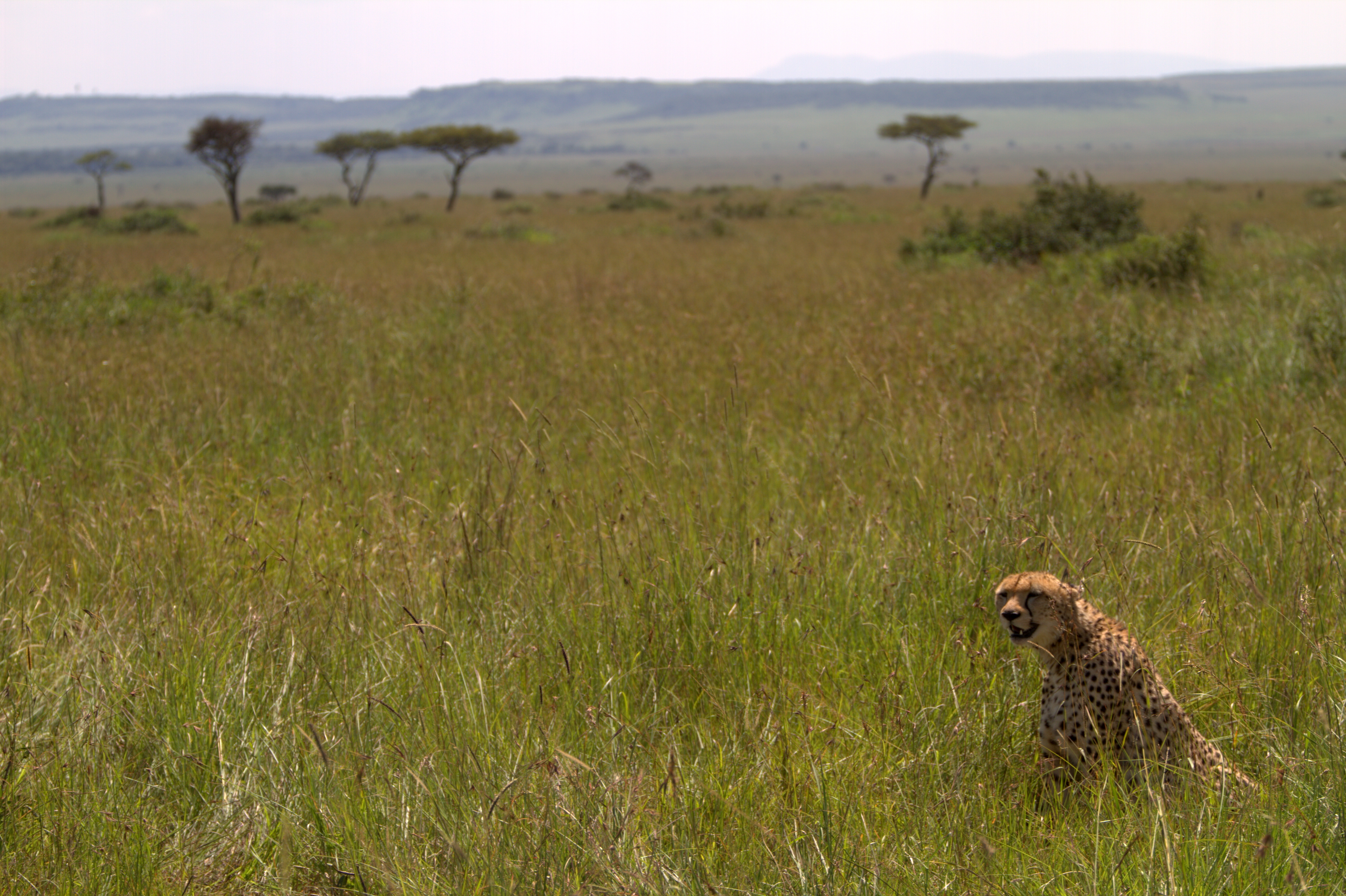 Cheetah in Masai Mara National Reserve, Kenya